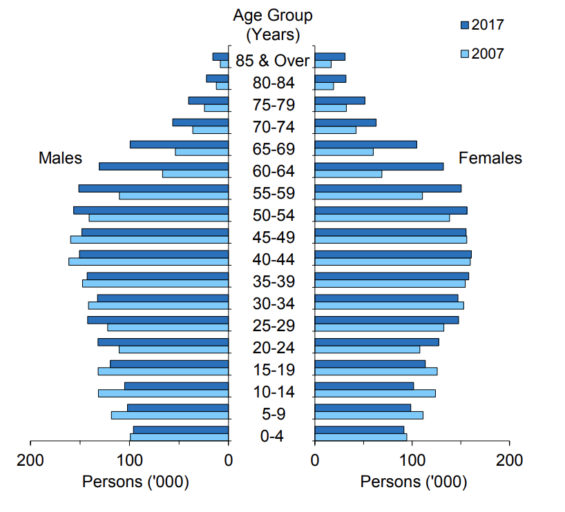 Age Pyramid of Resident Population (2007-2017).